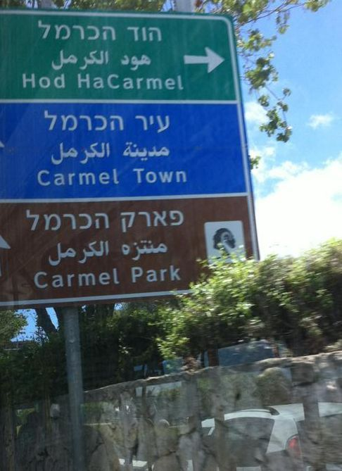 Arabic Language of Israel